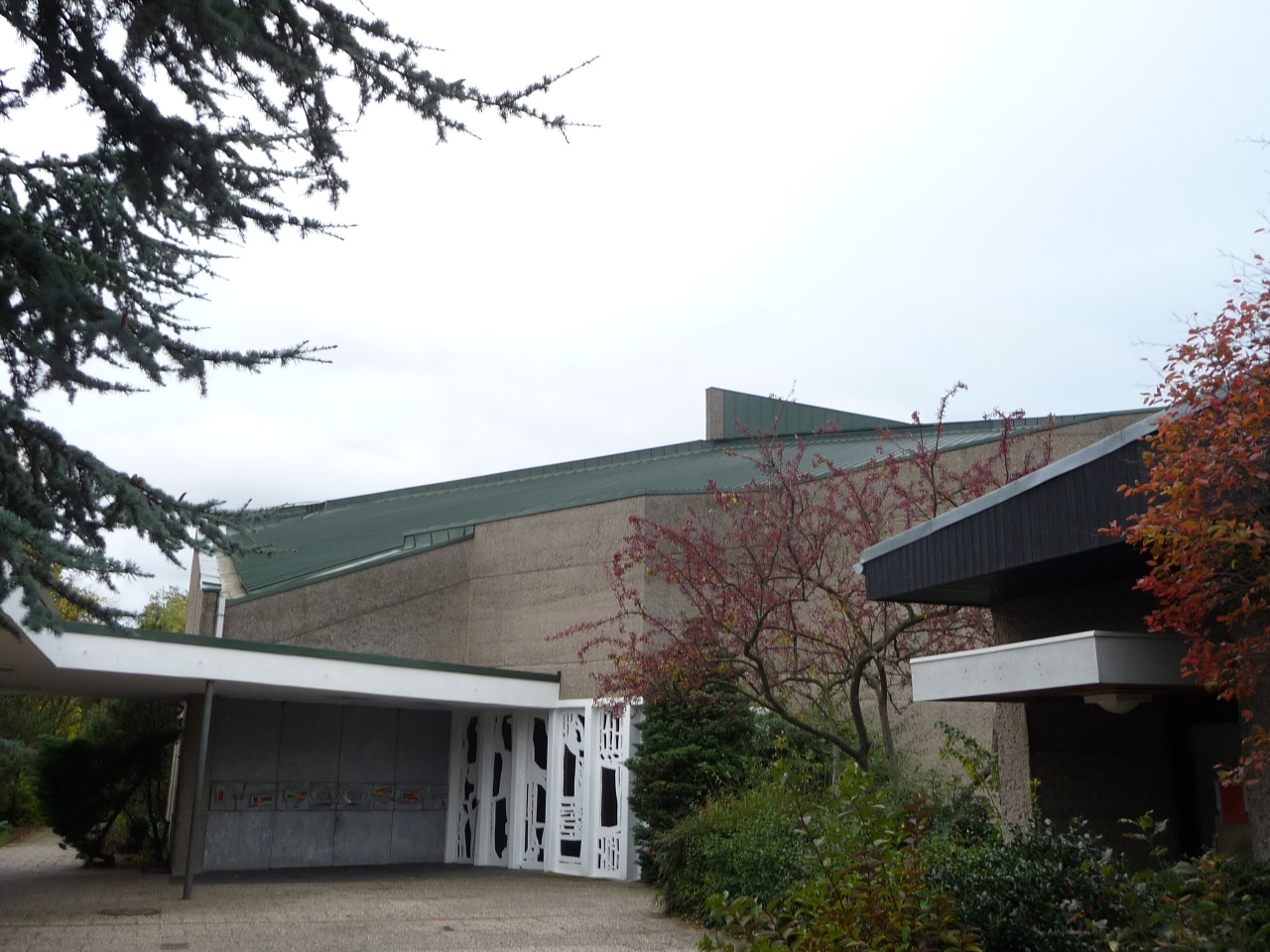 Church St. Elisabeth in Bremen-Hastedt